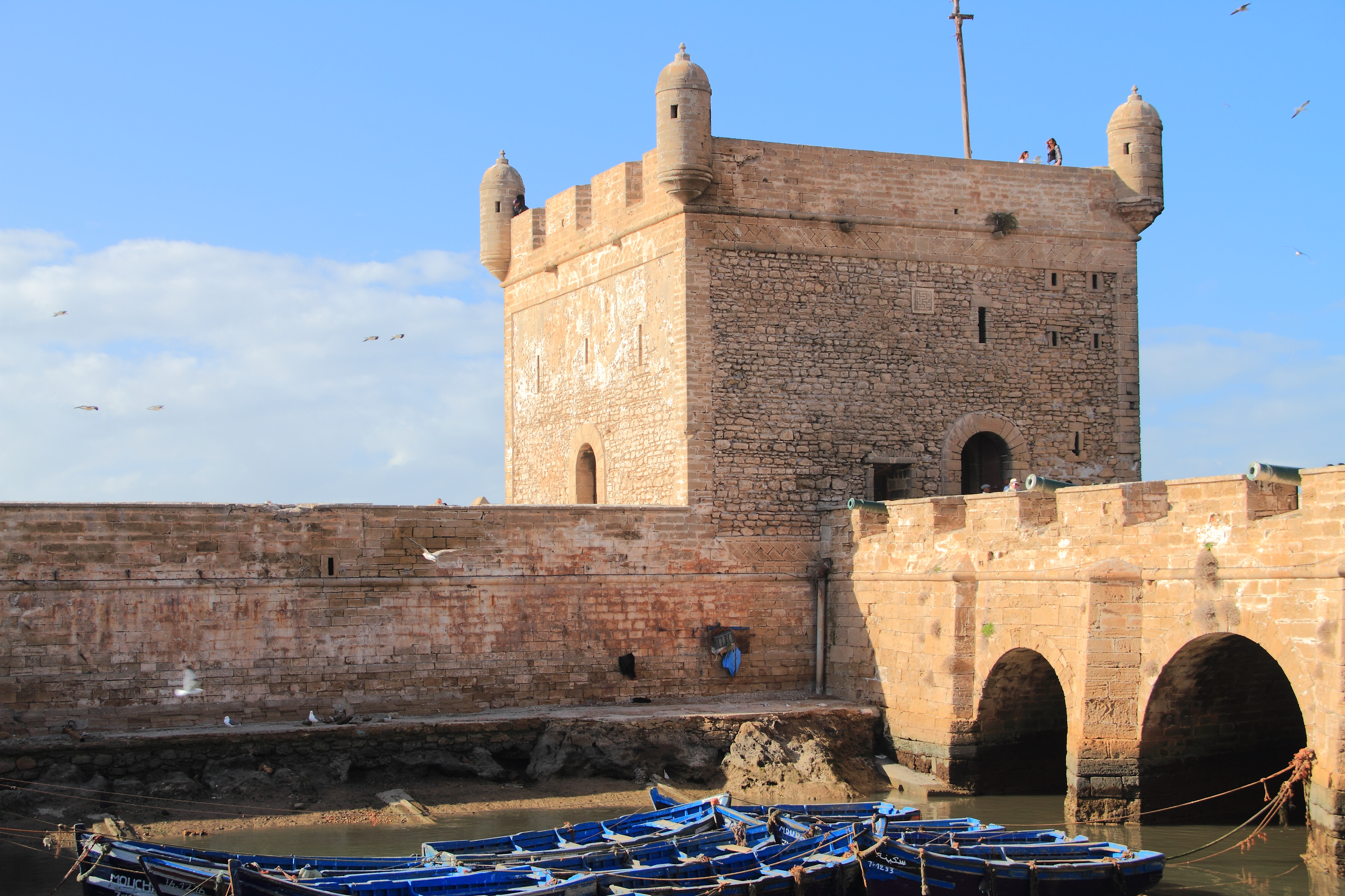 A tower of Essaouira´s citadel.